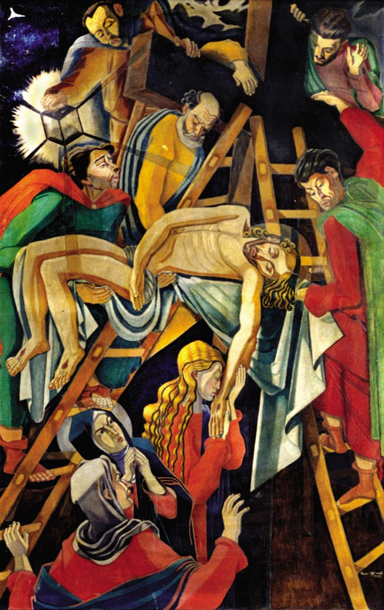 Removal from the Cross